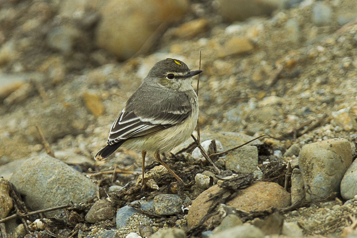 Short-tailed field tyrant (Muscigralla brevicauda) - South Ecuador_S4E8007